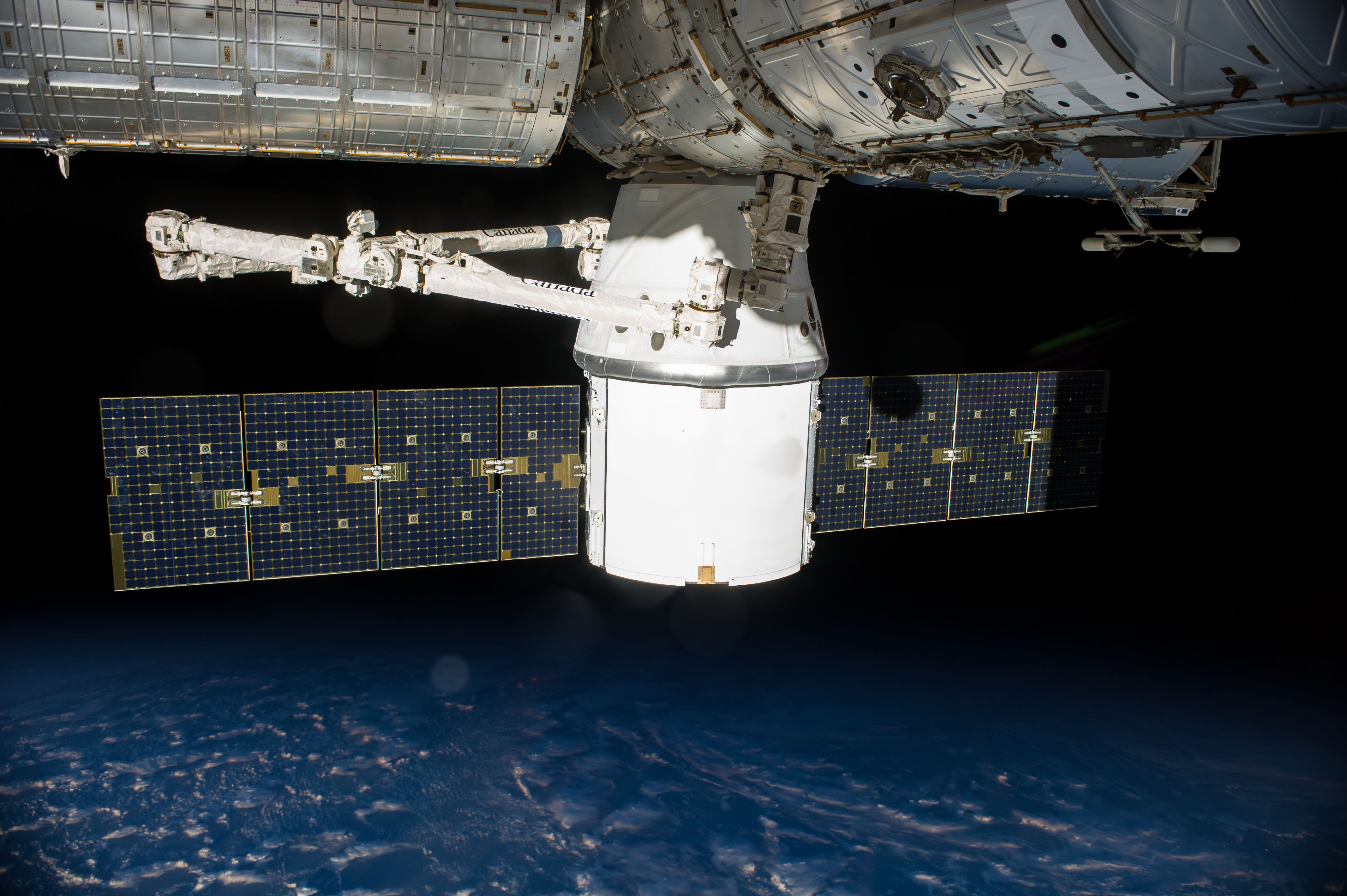 SpaceX's uncrewed Dragon cargo spacecraft is docked to the International Space Station after arriving on Sept. 23 with a load of supplies and equipment for the three crew members currently onboard the orbital outpost and the three who will join them soon.